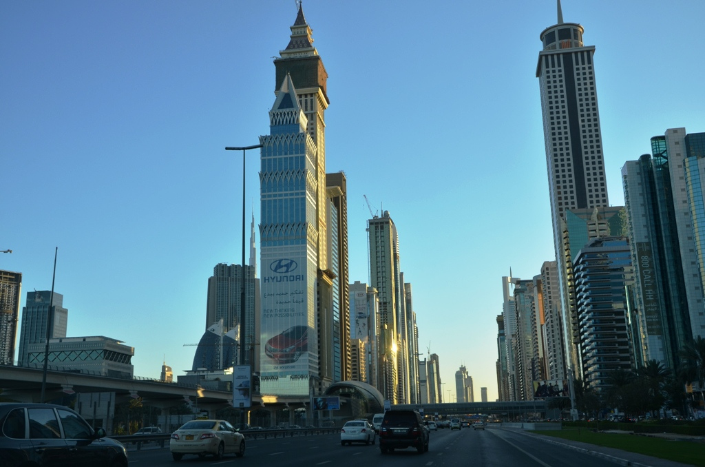 The Skyscrapers on Sheikh Zayed Road taken on Feb. 10, 2012